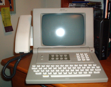 Digital Image taken of an Alextel unit